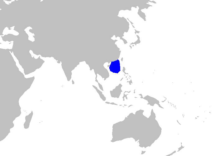 Distribution map for Apristurus sinensis